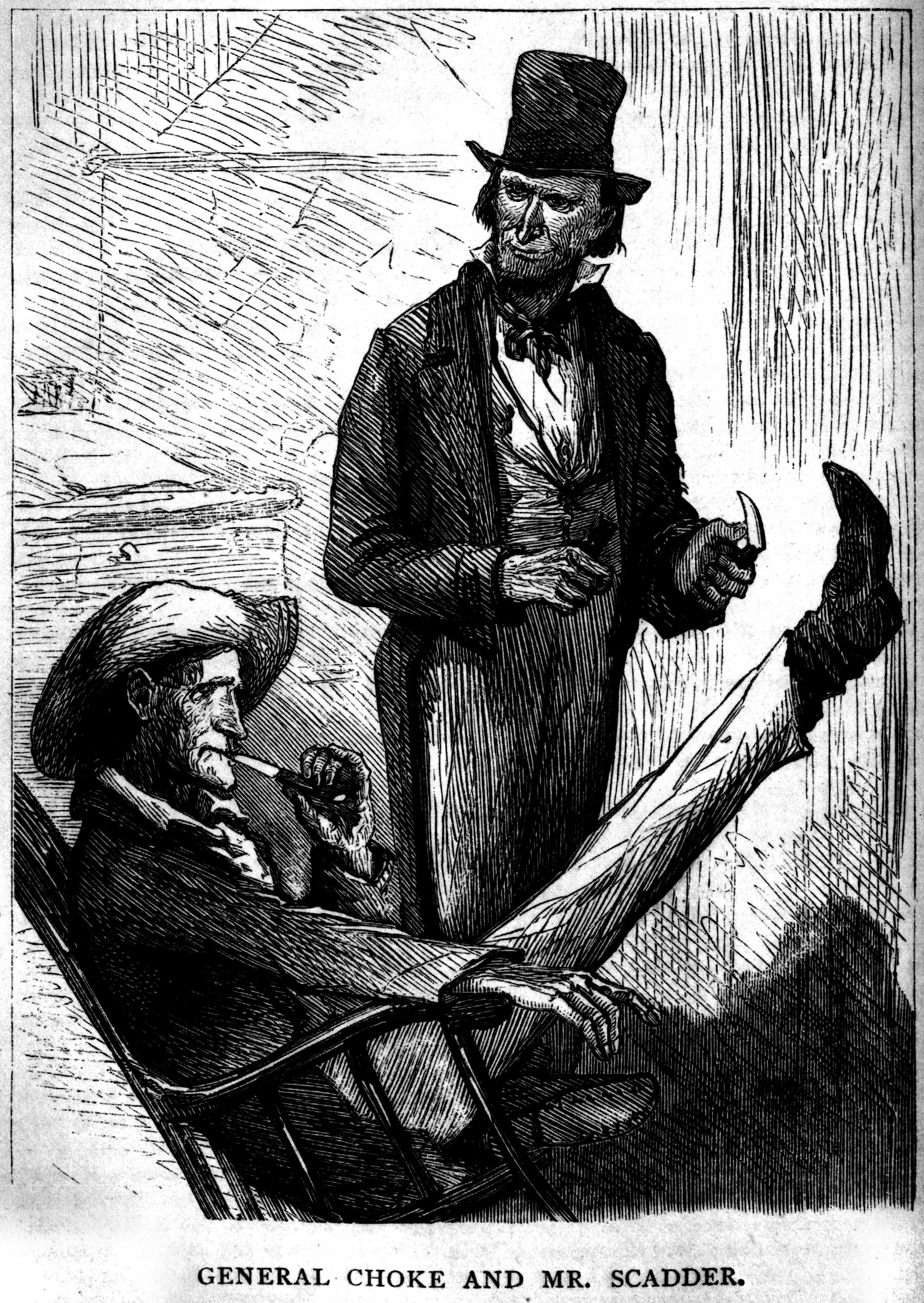 Illustration from 1867 U.S. edition of Martin Chuzzlewit. Page 205. "General Choke and Mr. Scadder"